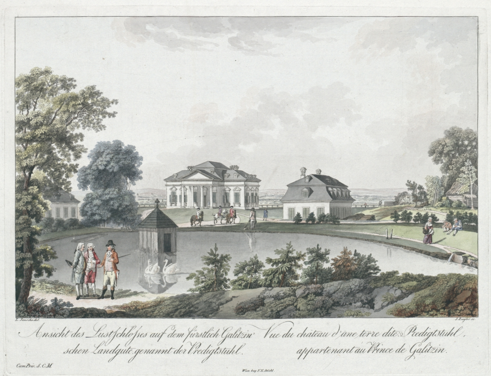 View of the Maison de Plaisance of Prince Dmitry Mikhailovich Golitsyn (1712–1793) on Gallitzinberg near Vienna. Colored etching after Laurenz Janscha (Lovro Janša 1749–1812), engraved by Johann Ziegler (1749–1802), published by Franz Xaver Stöckl (1756–1836), Vienna.